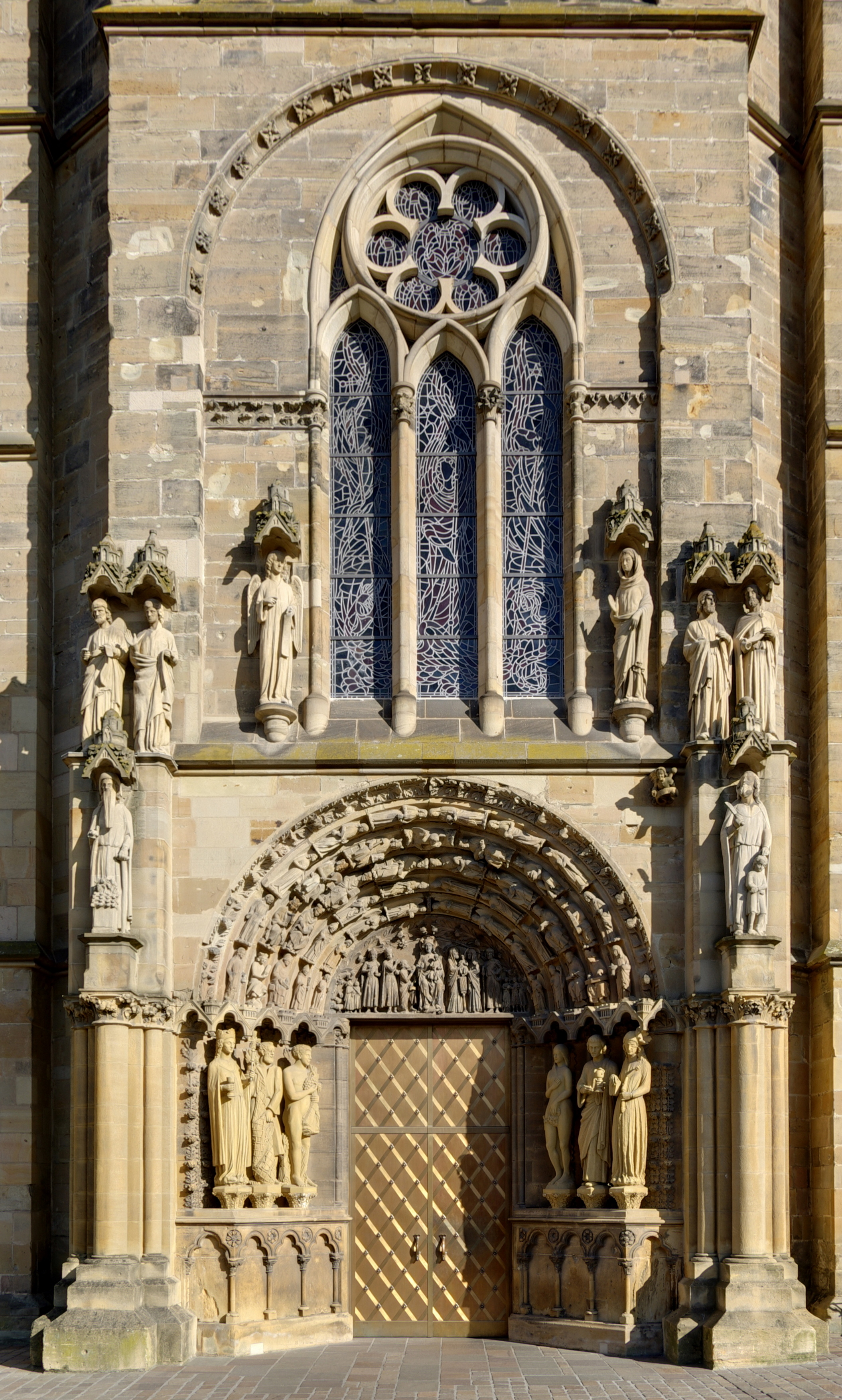 Germany, Trier, Church of Our Lady, main portal